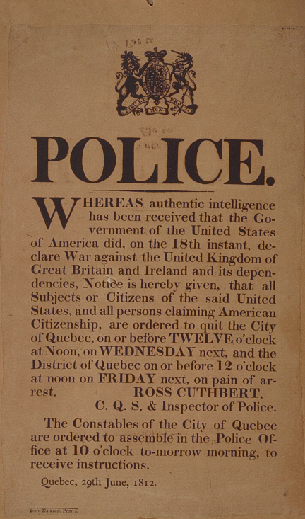 Announcement of the expulsion of United States citizens from Quebec City, Canada, 1812.